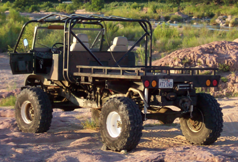 Stripped down Unimog S404.1 "sanding" at the now-closed Slab near Marble Falls, Texas, USA.